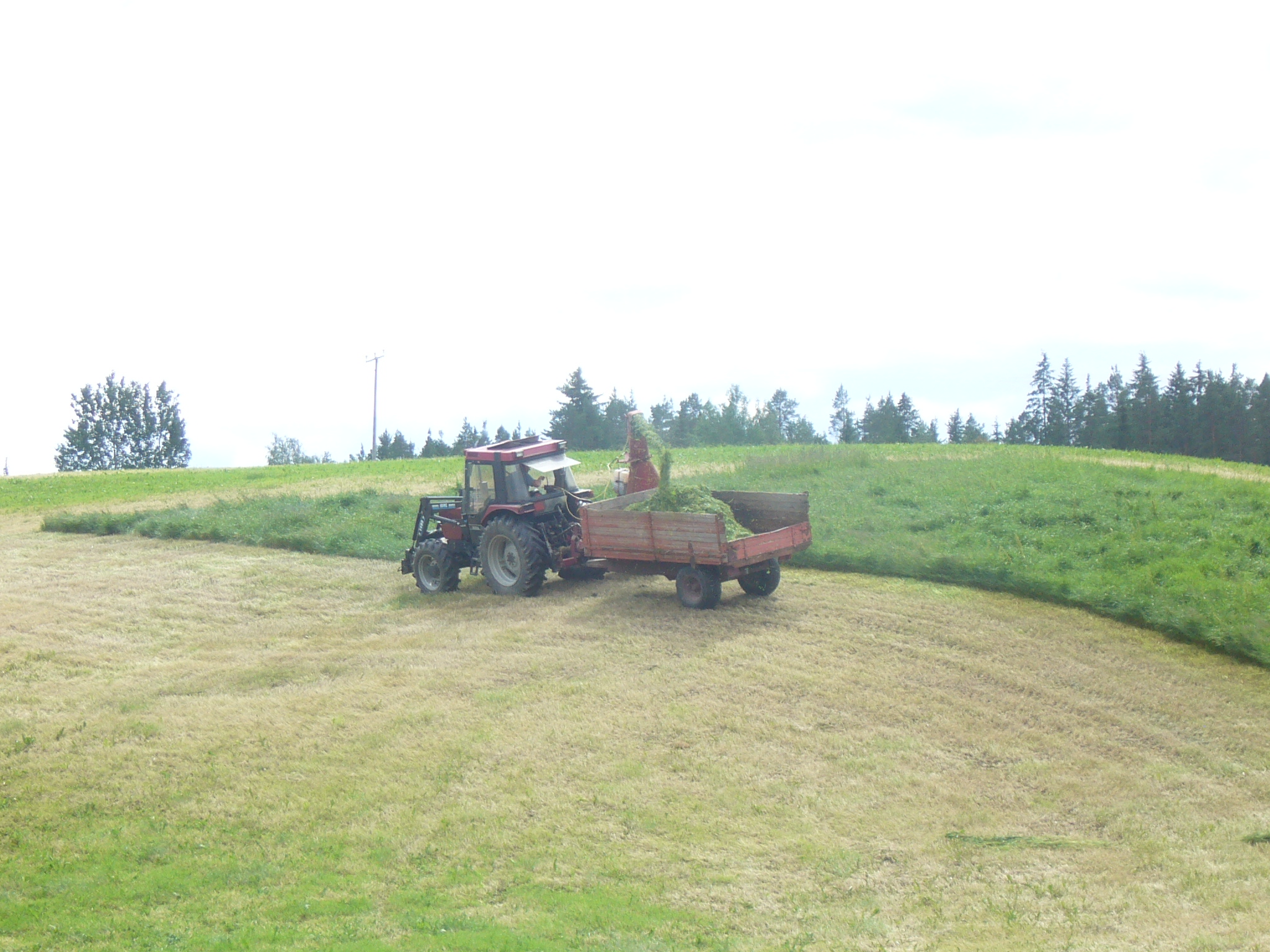 A farmer with his tractor in Koskue, Jalasjärvi, Finland.